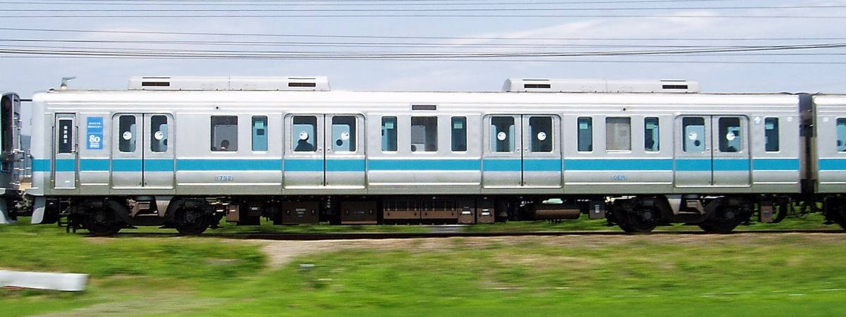 Odakyu Electric Railway Company, EMU Type 1000 "Widedoor Version" between Kayama Sta. and Tomizu Sta.